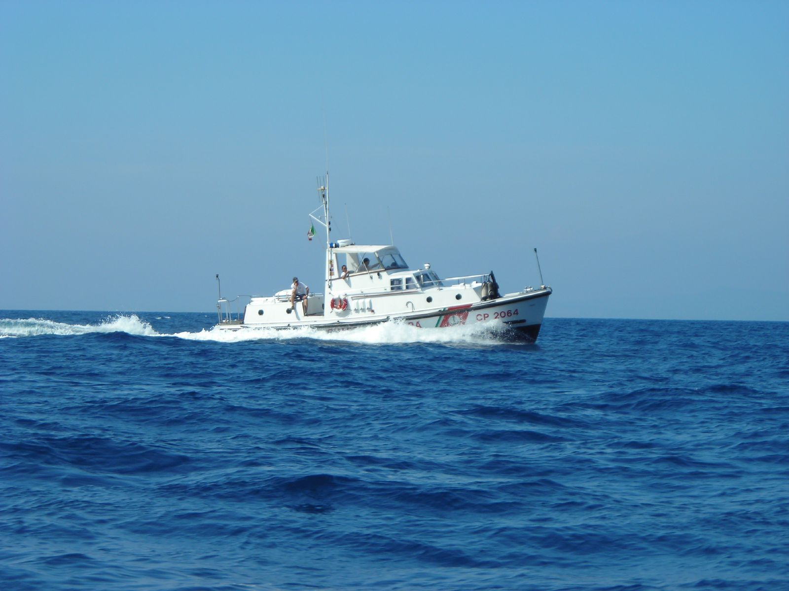 Patrol Boat CP-2064 of Italian Coast Guard